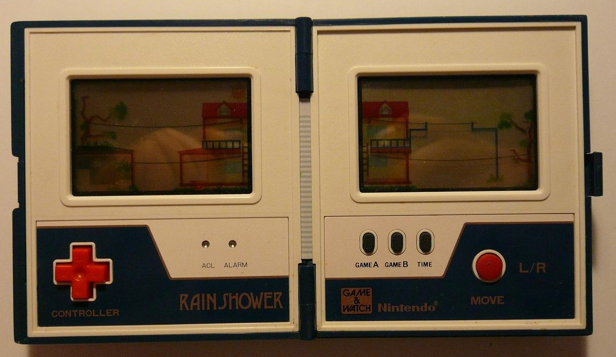 Rain Shower - Game&Watch - Nintendo